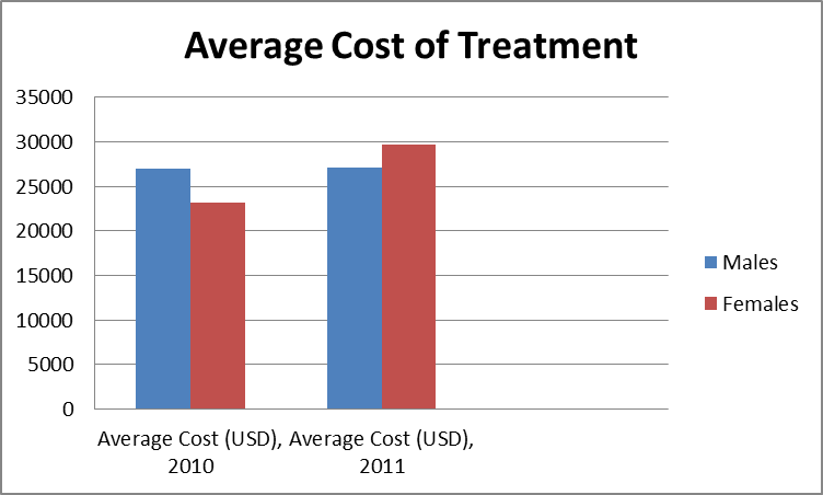 Comparison of the average cost of treatment between males and females in 2010 and 2011. The average cost is nearly the same for males within these two years .However, the cost of treatment increased in 2011 for females. (2010, 2011)